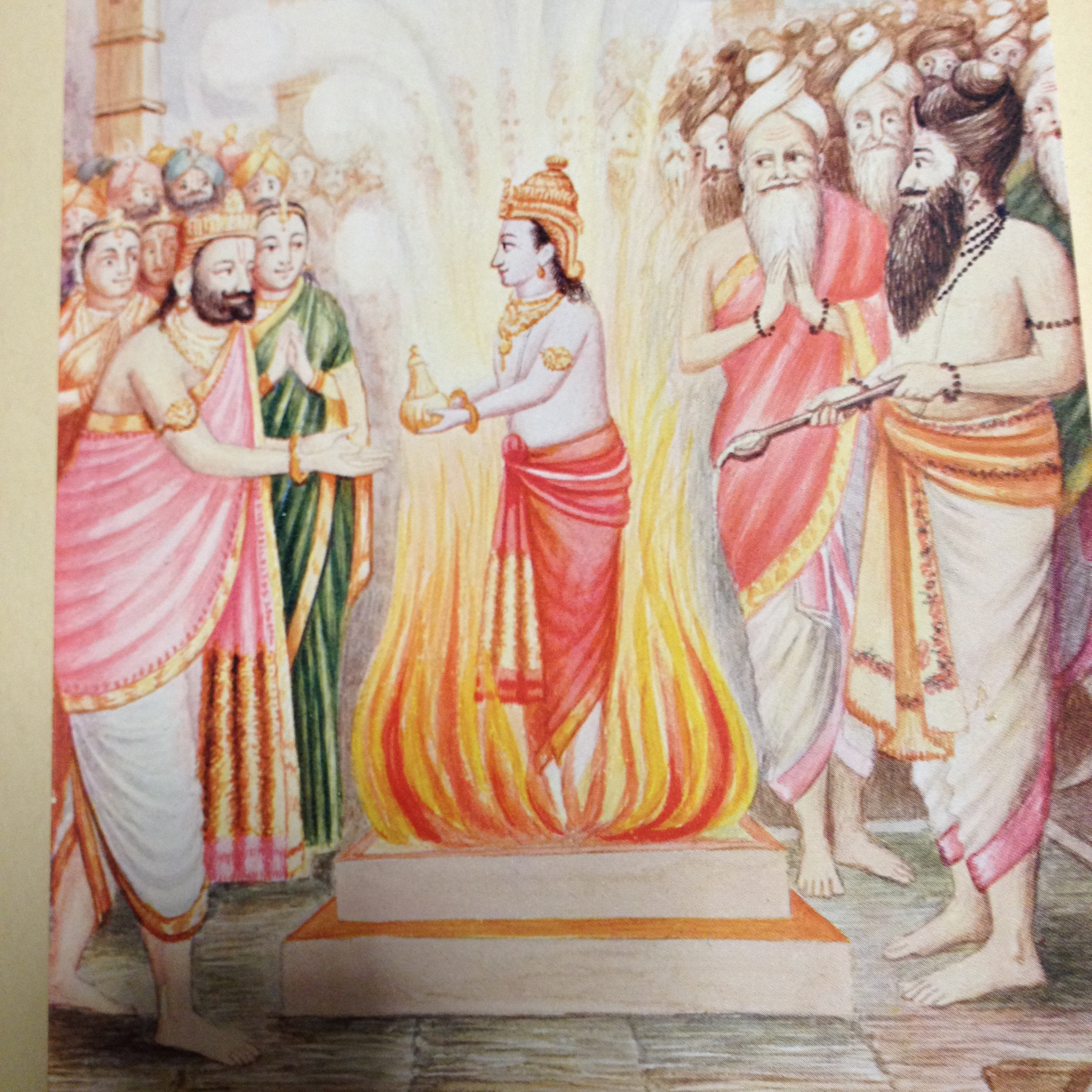 The Boon of Pudding:- Under Rishyashringa's leadership the sacrifice was successfully conducted. On the final day, a dark skinned deity appeared from sacrificial alter and handed over a vessel of payasam (pudding) to king Dasharatha. He distributed the pudding equally between his three queens. Rishyashringa performed the holy sacrifice and the final day of the event, a dark skinned deity appeared from sacrificial alter and handed over a vessel of payasam to Dasharatha. He distributed the pudding equally between his three queens. All the three queens bore sons on due date. Kousalya's son is known as Rama. Sumitra got twins, Laxman and Shatrughna. Kaikeyi got Bharata. The princes got the education and grew up.